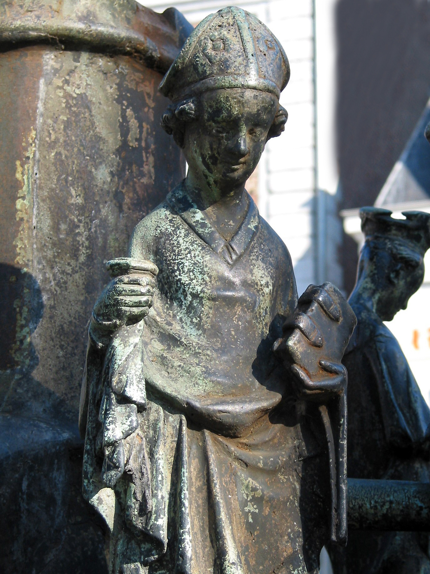 Huy (Belgium), small fine bronze of St. Domitian of Huy (1597) - upper part of the fountain "Li bassinia" (XV/XVIIIth centuries).